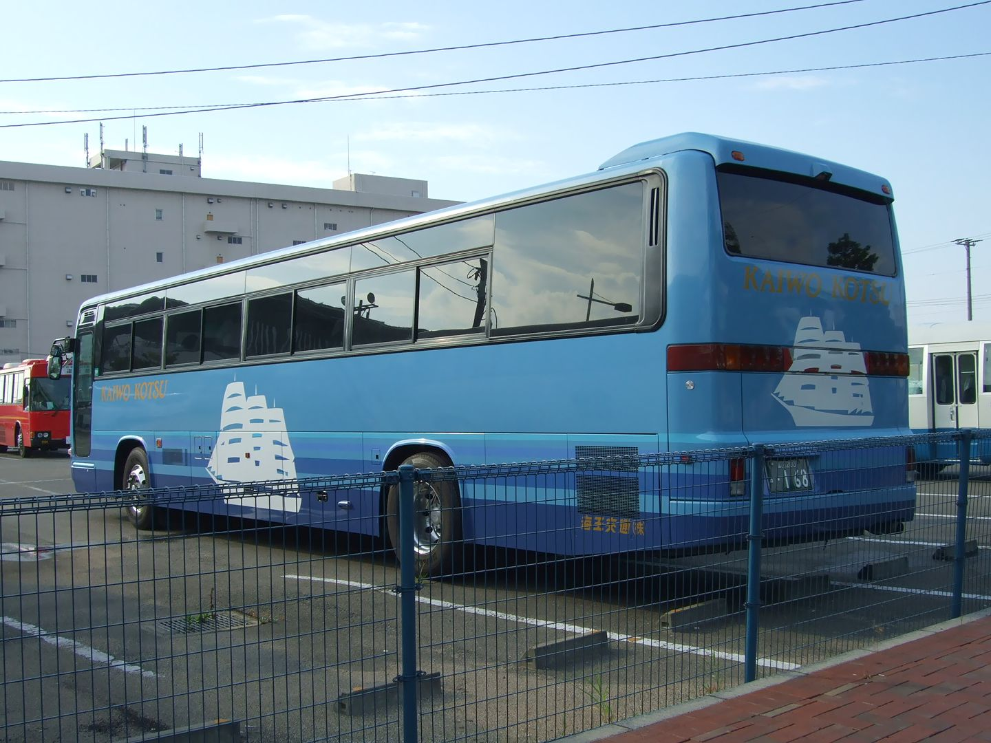 Company:Kaio Kotsu Use:tour bus Car license:富山200か・168 Chassis manufacturer:Hino Motors Coachbuilder:Hino Body Location:in Hakata-ku, Fukuoka City, Fukuoka, Japan